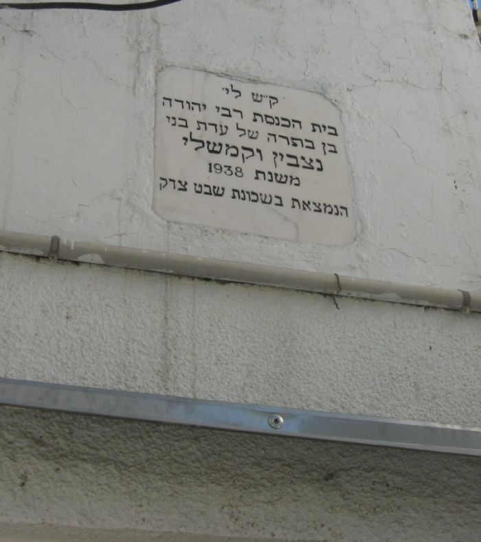 Synagogue for the Jews of Nesivin and Kamishli in Jerusalem, Israel